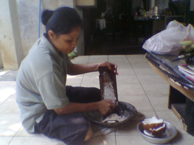 The making of coconut milk